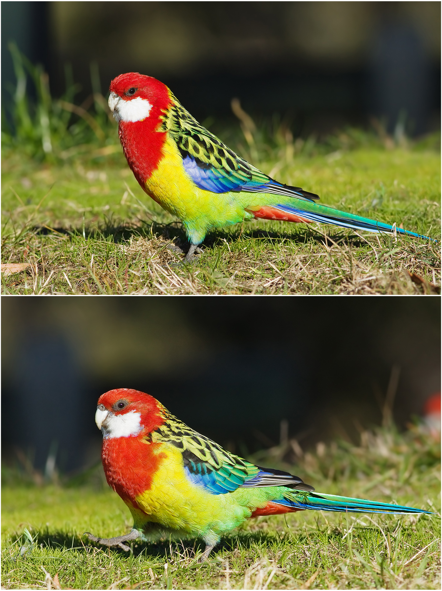 Platycercus eximius diemenensis pair